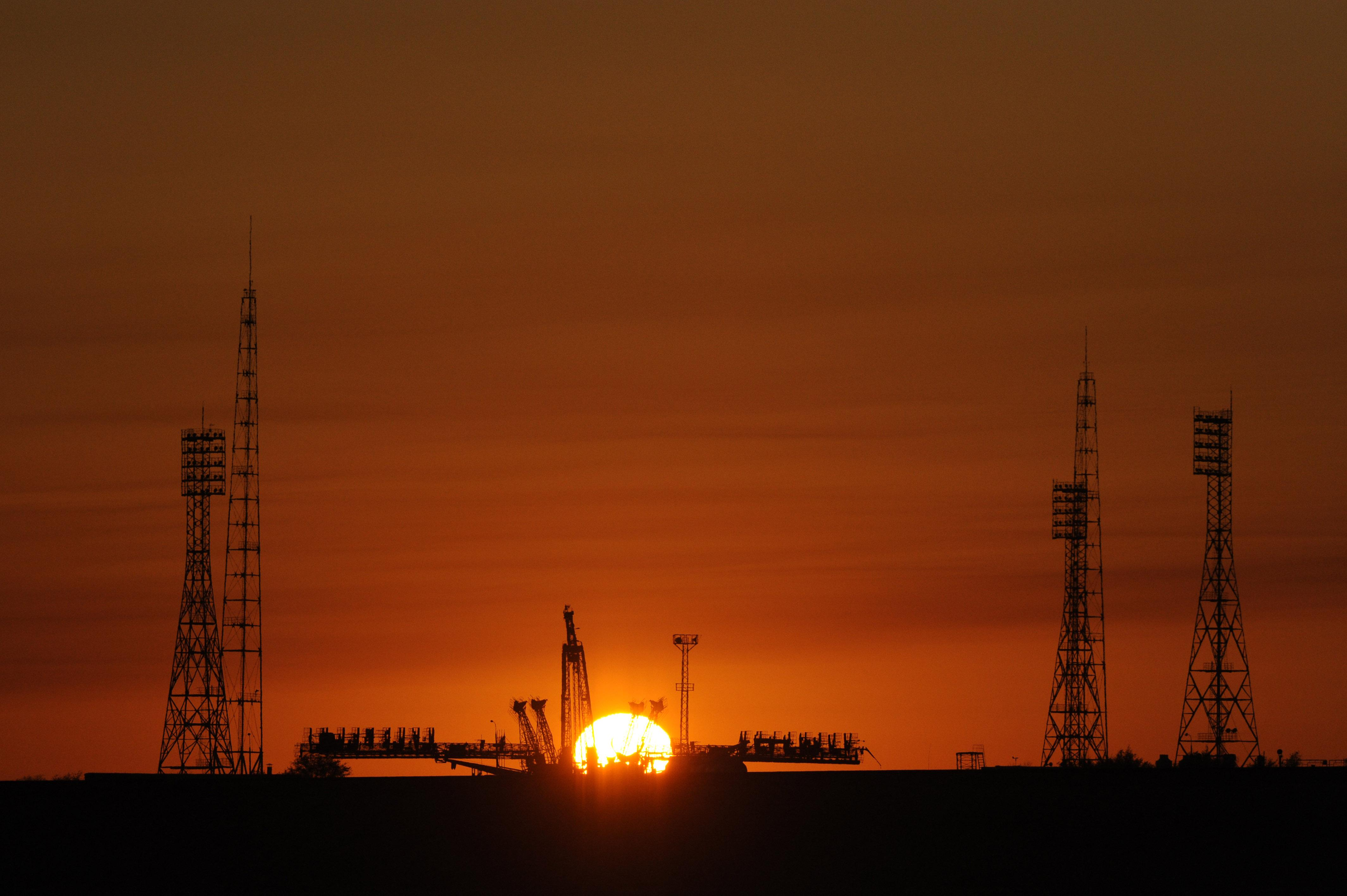 The Soyuz launch pad, Gagarin's Start is seen prior to the rollout of the Soyuz TMA-13 spacecraft at the Baikonur Cosmodrome in Kazakhstan, Friday, October 10, 2008.